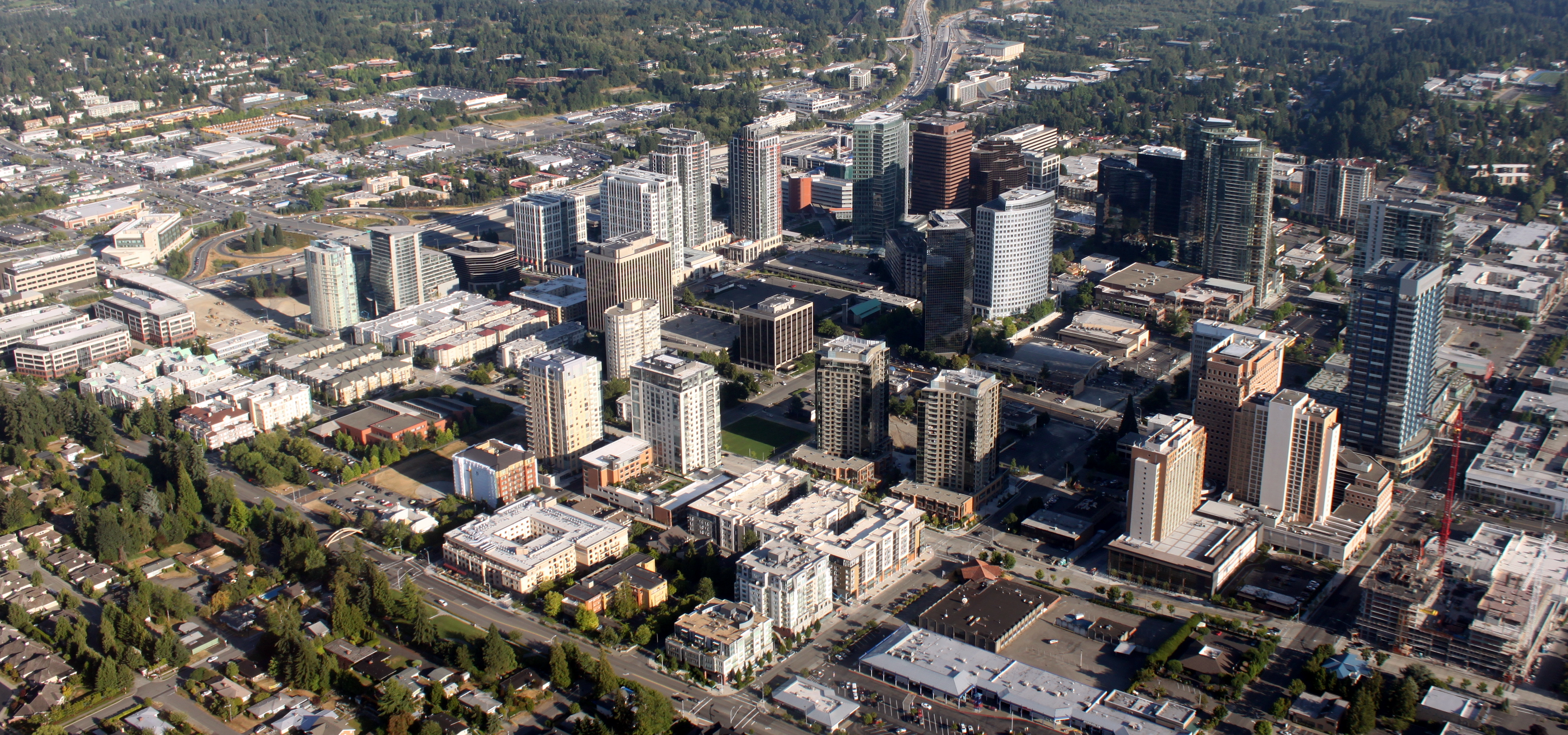 An aerial view of the Bellevue Skyline, looking south-east, August 3 2009. Taken from about 1,500'.